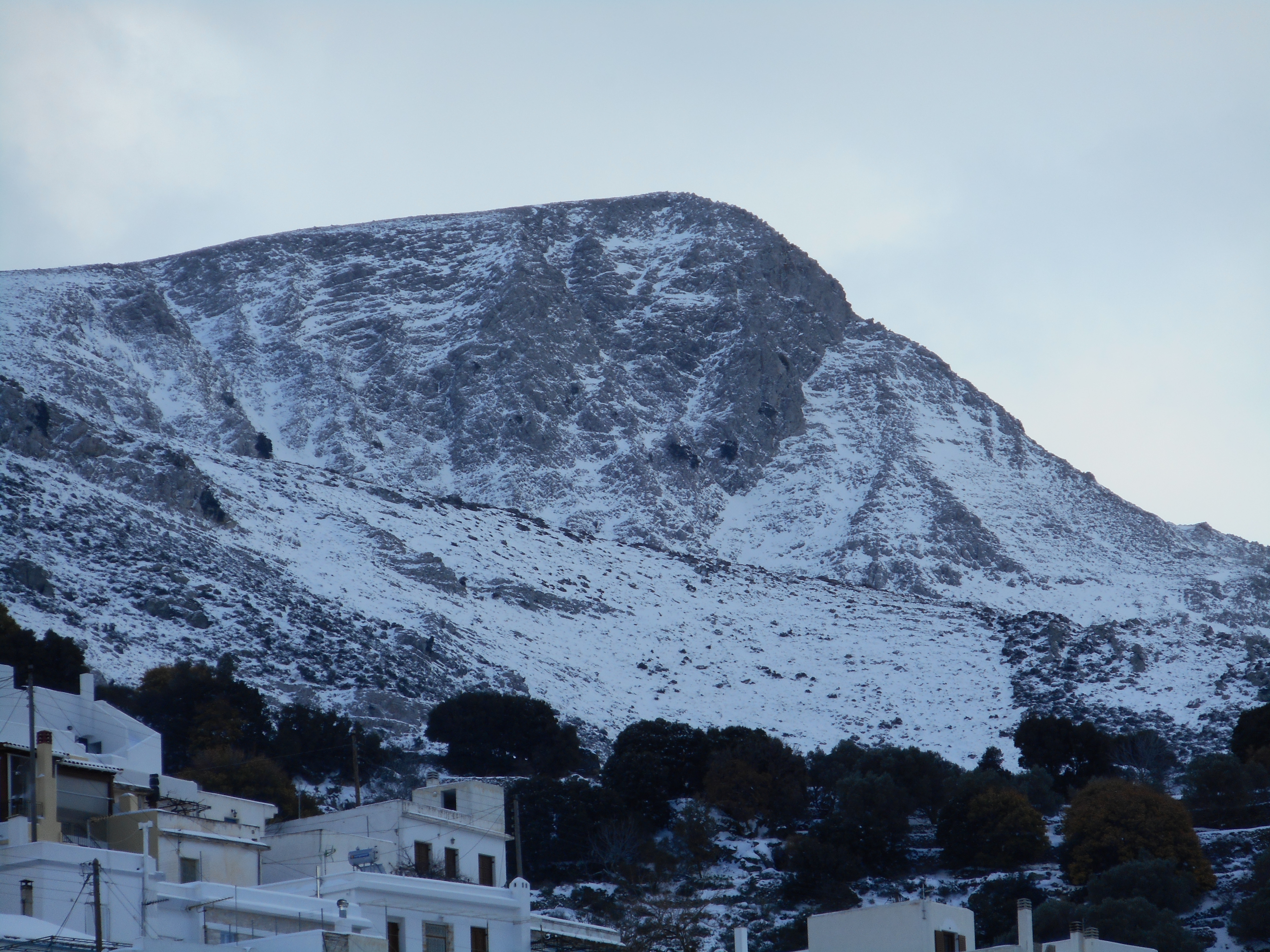 View of snowy mount Zas from Filoti, Naxos, Greece